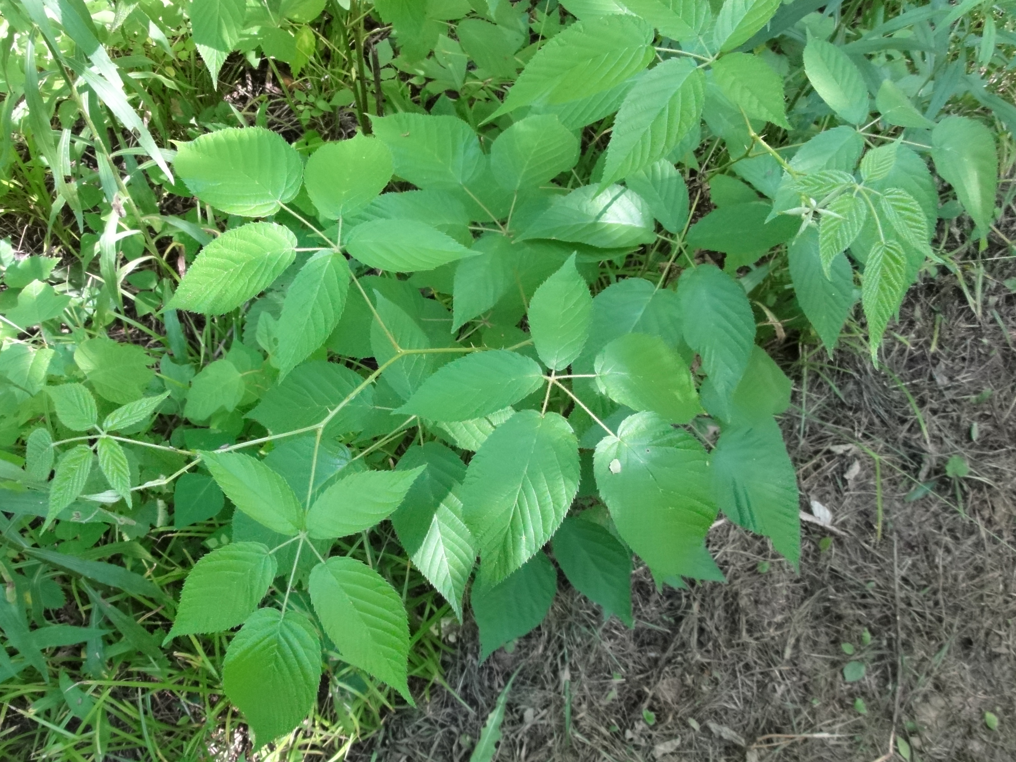 Rubus allegheniensis - Allegheny blackberry - at the Skaneateles Conservation Area, Onondaga County, New York